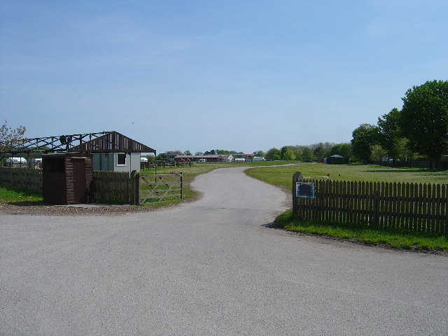 Driffield Showground, Kelleythorpe, East Riding of Yorkshire, England.The venue for many events through the year including the country's largest one day agricultural show.